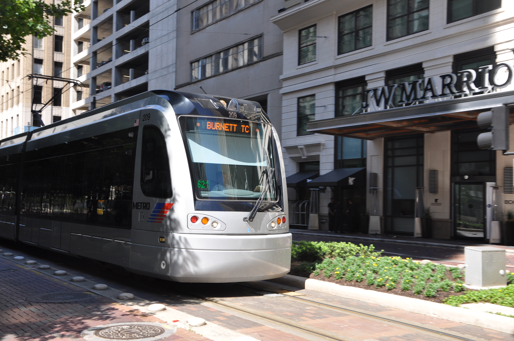 A 2nd-generation Siemens S70 LRV approaches Central Station northbound on the MetroRail Red Line.